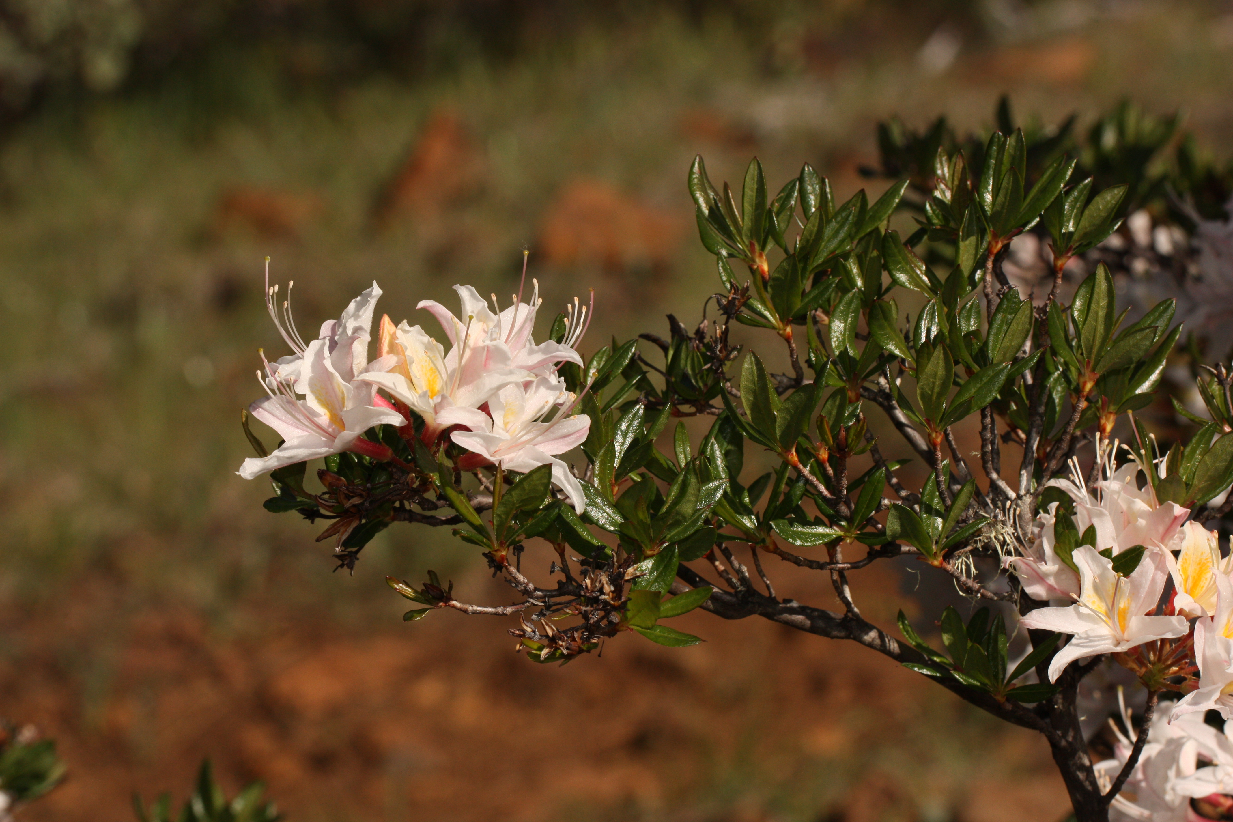 Western Azalea Viewpoint location: Little Falls Trail, T. J. Howell Botanical Drive Viewpoint elevation: 384 meter (1261 ft) Location source: Garmin GPSmap 60CSx Location Datum: WGS84